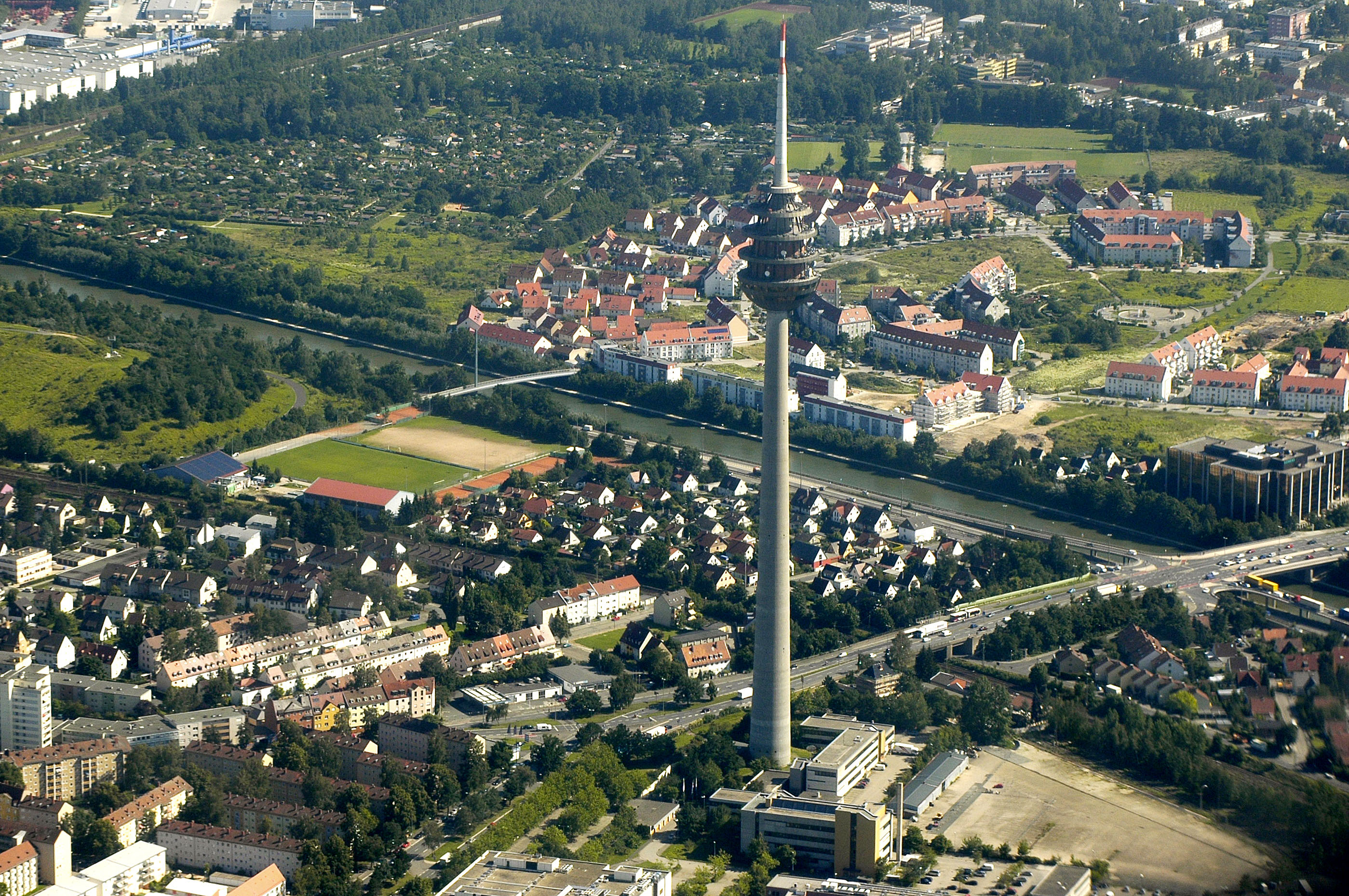 Aerial photography Fernmeldeturm Nuremberg